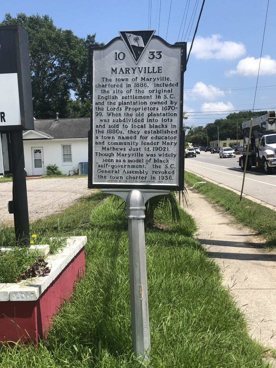 This historic marker was placed at the entrance of the Maryville neighborhood to mark the presence of the town of Maryville, an early African American town